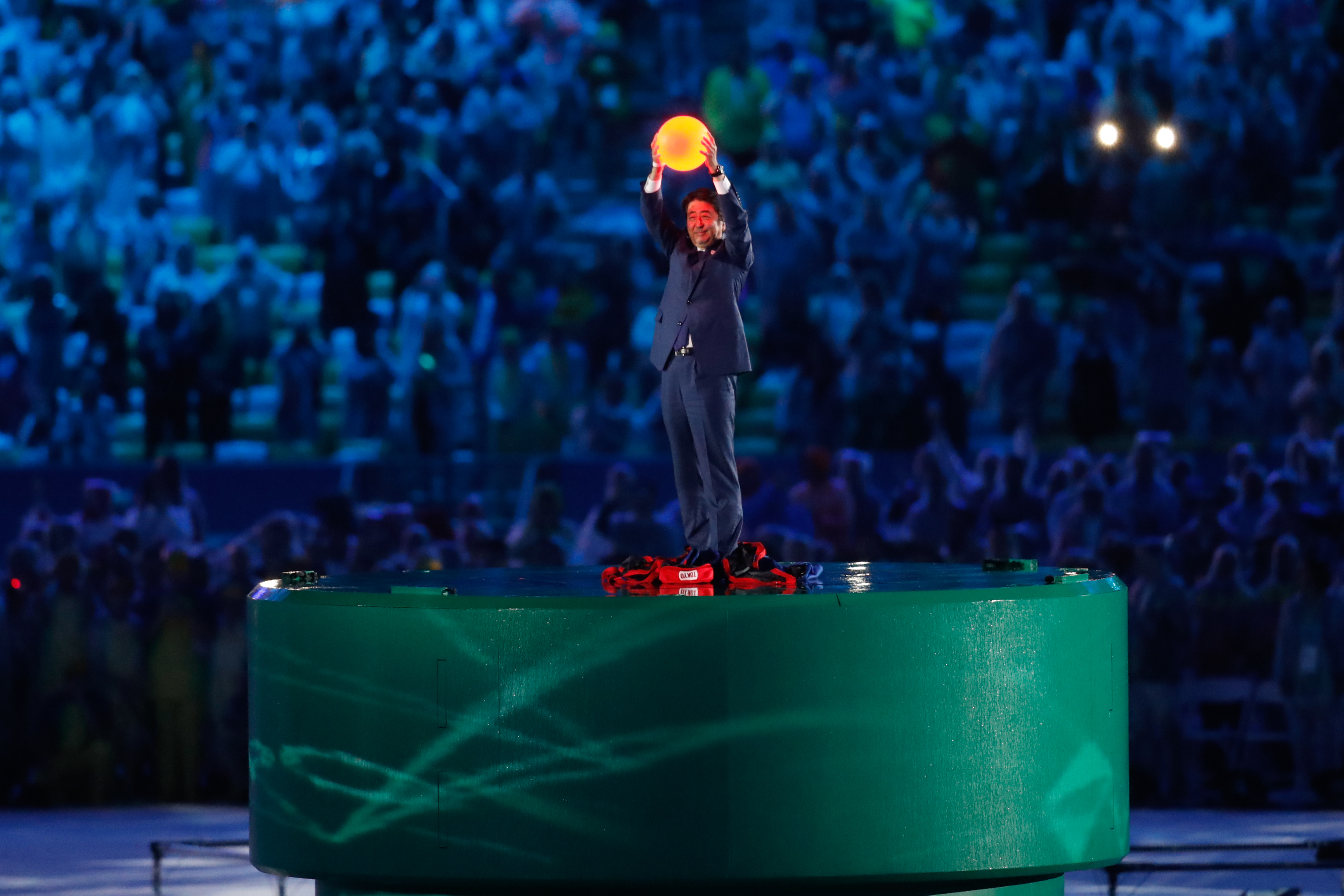 Rio de Janeiro - Cerimônia de encerramento dos Jogos Olímpicos Rio 2016, no Maracanã (Fernando Frazão/Agência Brasil)